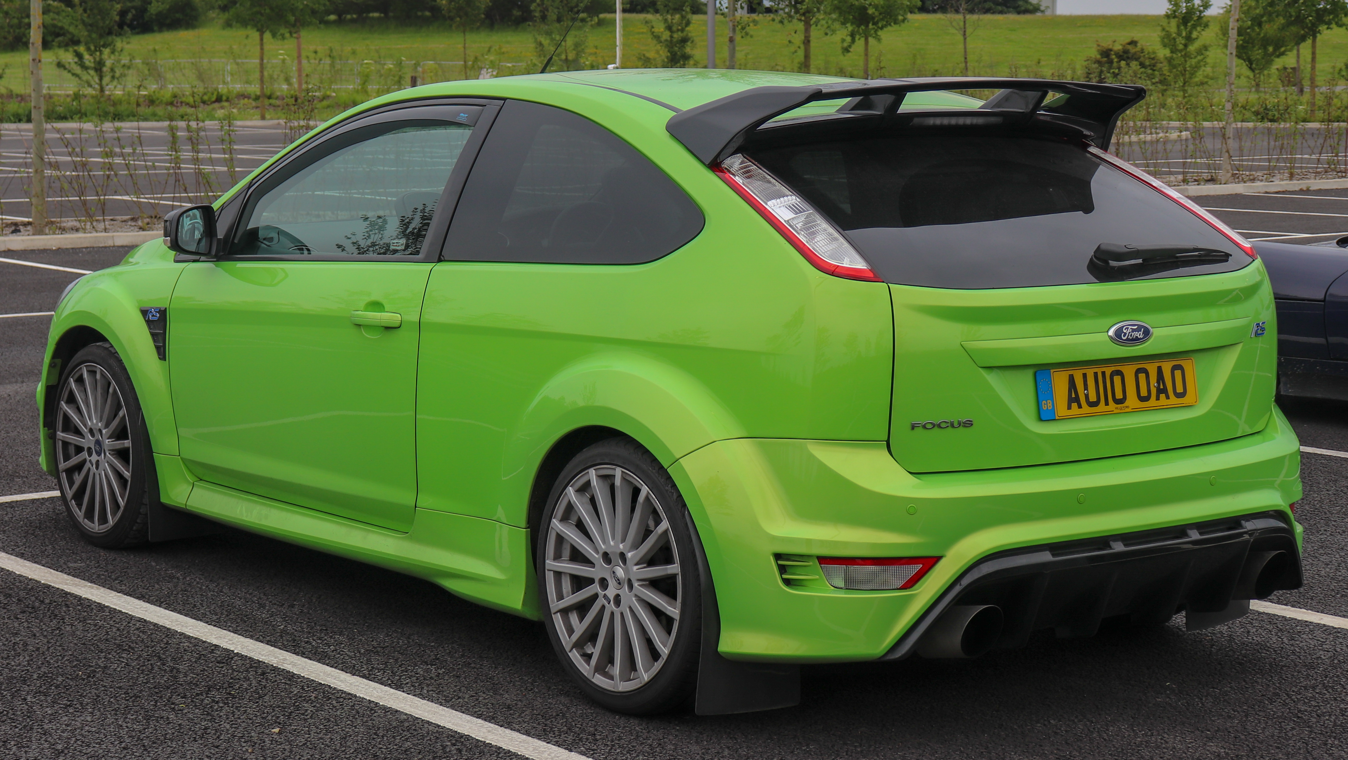 2010 Ford Focus RS 2.5 Rear Taken Taken at the British Motor Museum, Gaydon